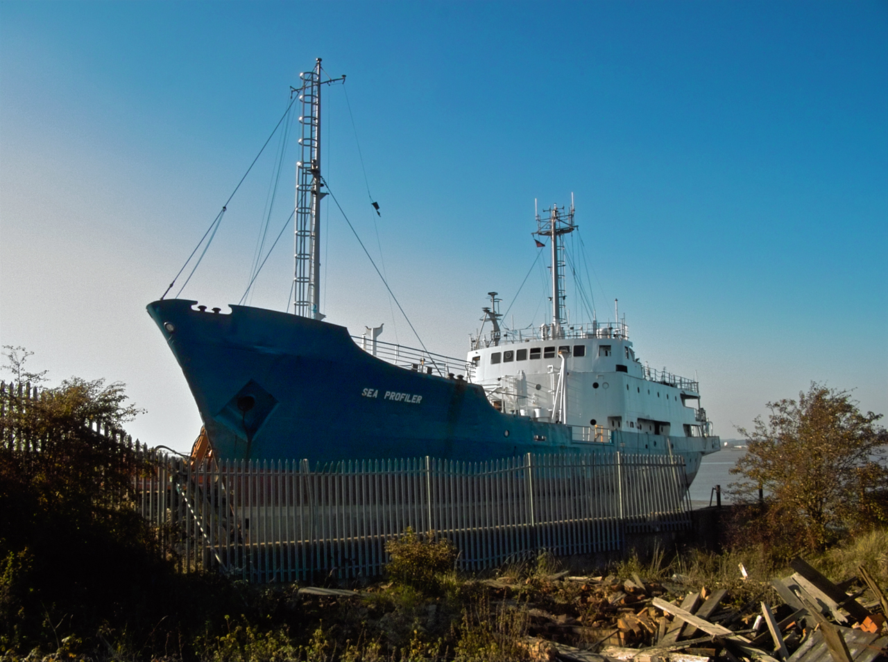 Sea Profiler awaiting demolition at the Acetech slipway, New Holland. This vessel served with British Antarctic Survey from 1955 to 1992 as RRS Shackleton